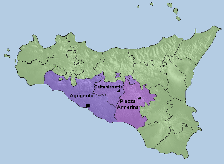 Map of the ecclesiastical province of Agrigento (^^: Cathedral of a metropolitan diocese, –^: Cathedral of a suffragan diocese, ^–: Co-cathedral)